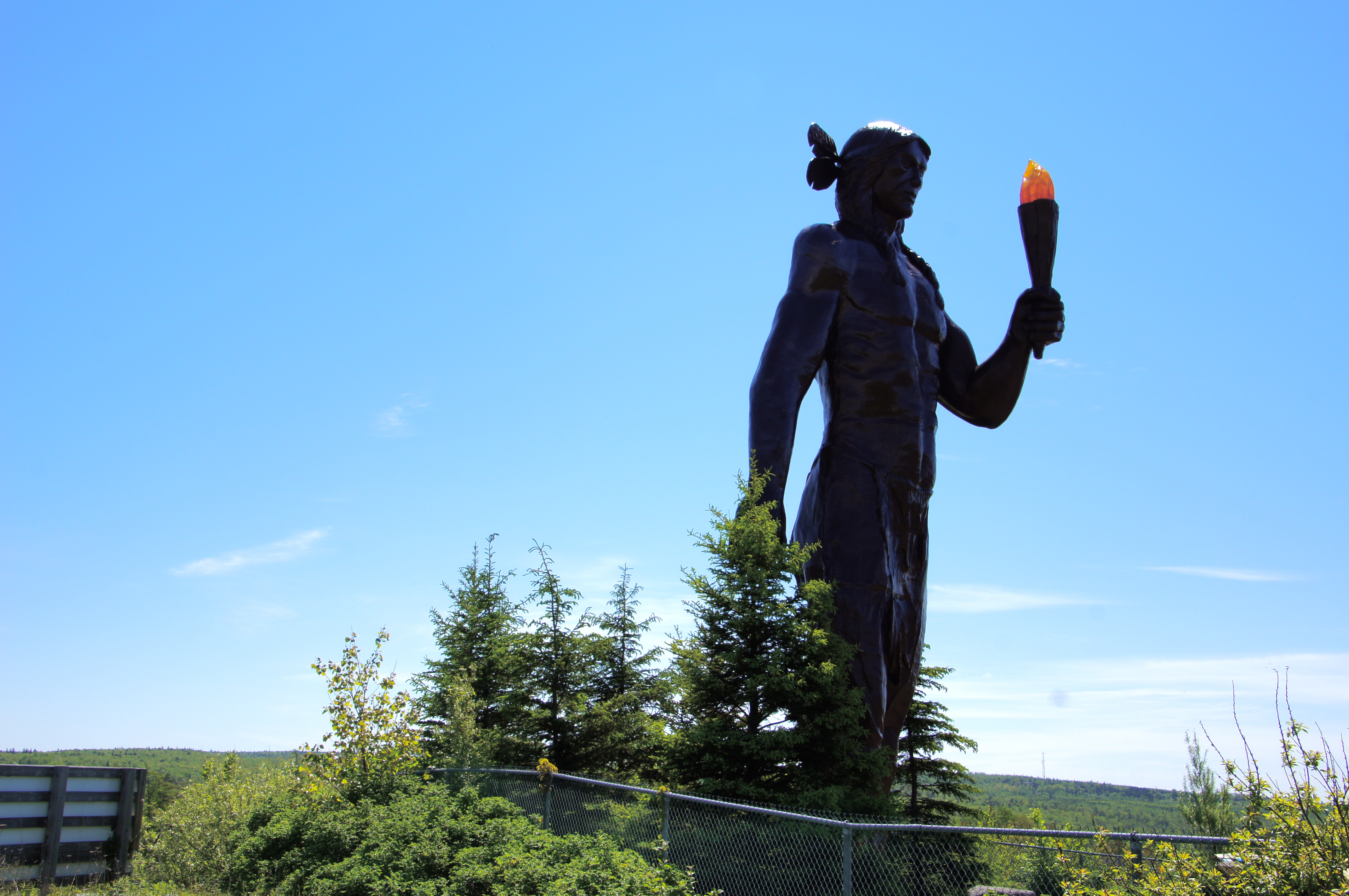 Monument at Millbrook, near Truro, Nova Scotia paying tribute tp Glooscap--a legendary figure to Mi'kmaq people of Nova Scotia.